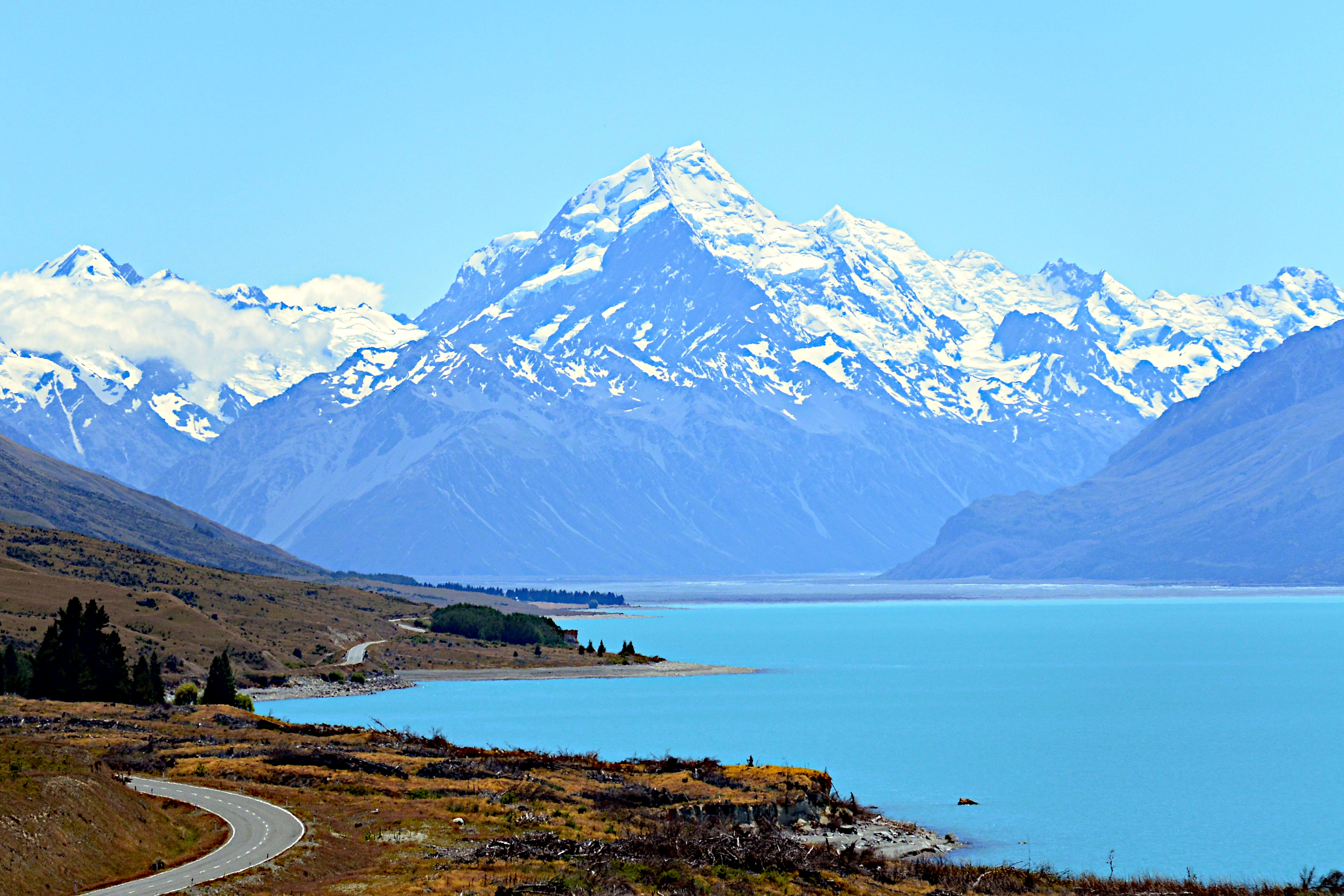 Mount Cook, summer 2015